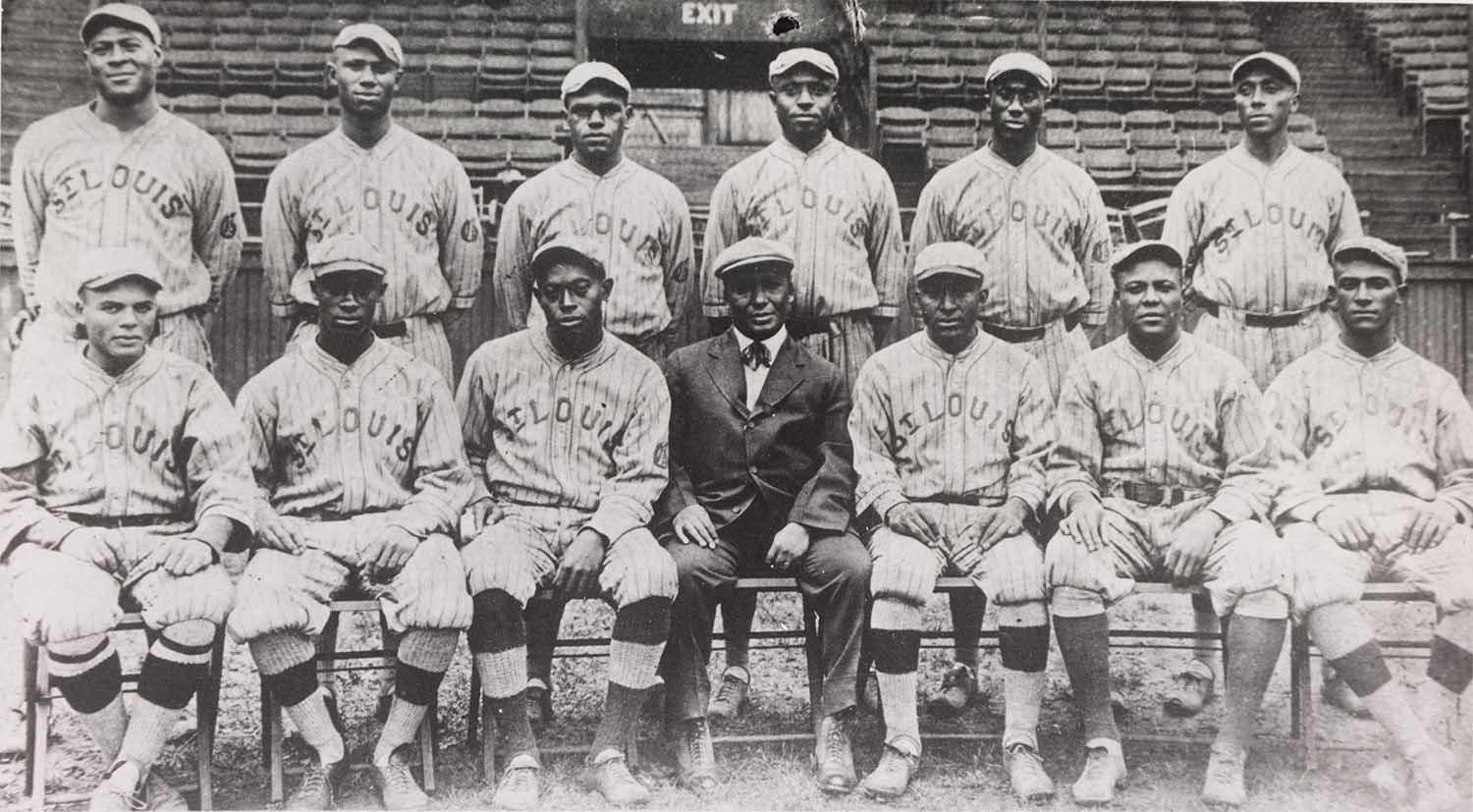 Identified at the Hall of Fame website as the New York Giants; clearly an error as the uniforms show "St. Louis". Title St. Louis Giants Team photograph, 1916 Accession Number BL-1649-72 Abstract A black-and-white team photograph of the 1916 St. Louis Giants. The players are posed in two rows, one standing and one sitting, on the field of an unidentified stadium. The players are identified both beneath the image and on the reverse (not shown) as follows. Back row, left to right, Bill Gatewood, P; [Bill] Drake, P; [Ted] Kimbro; Tully [Tullie] McAdoo, 1B; Sam Bennett, C, OF; [Lee] Wade. Front row, left to right, McKinley [Bunny] Downs, LF; Frank Warfield, 2B; Dan Kennard, C; Chas. [Charles] Mills Mgr.; Bobby [Dick] Wallace, Capt., SS; Jimmy [Jimmie] Lyons, OF; [Charlie] Blackwell, OF. The additional image caption on the reverse reads, "Bennett is said to have given pointers to Tris Speaker. Warfield is one of 3-4 best 2B in black history. Downs later killed a woman, I don't know all the details. Gatewood, an emery ball pitcher, killed a man in batting practice."